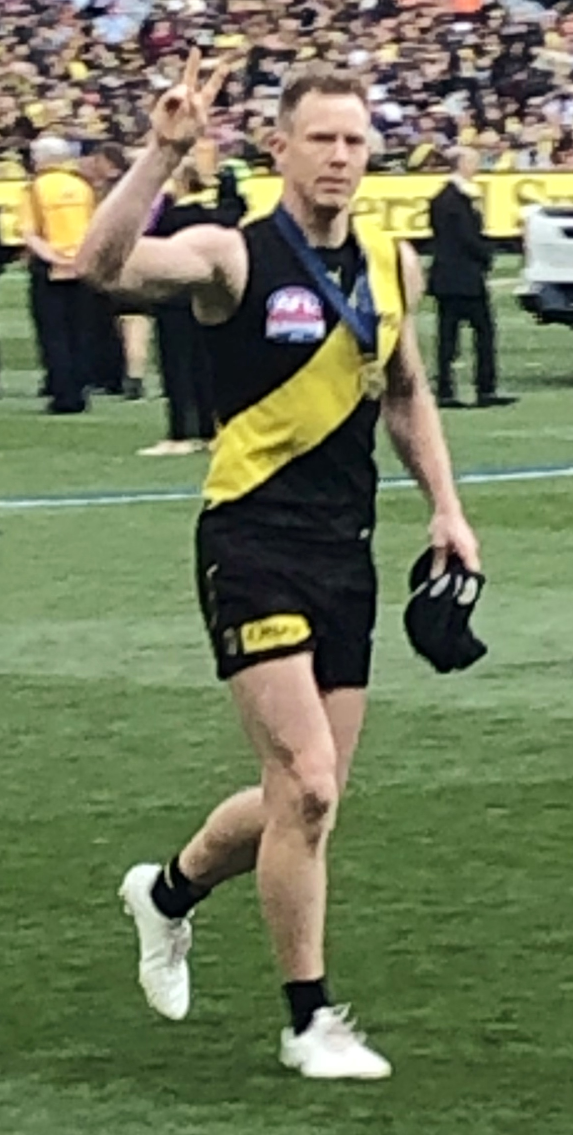 Jack Riewoldt at the 2019 AFL Grand Final